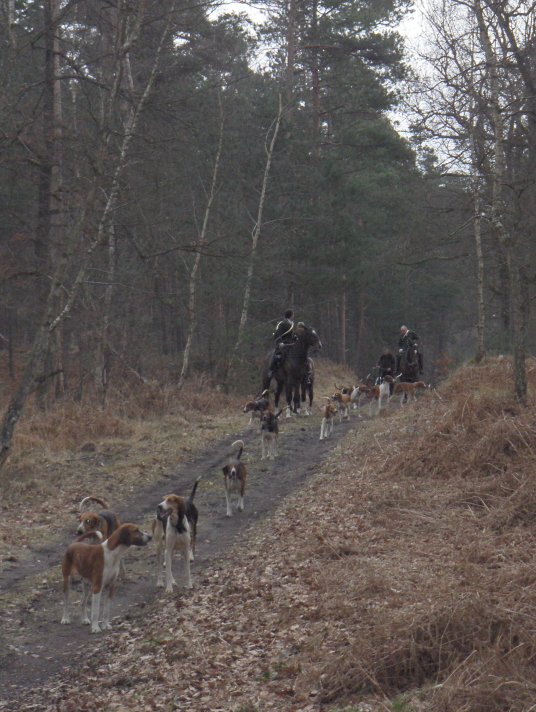 hunt by horse in Forêt d'Halatte, Oise, France